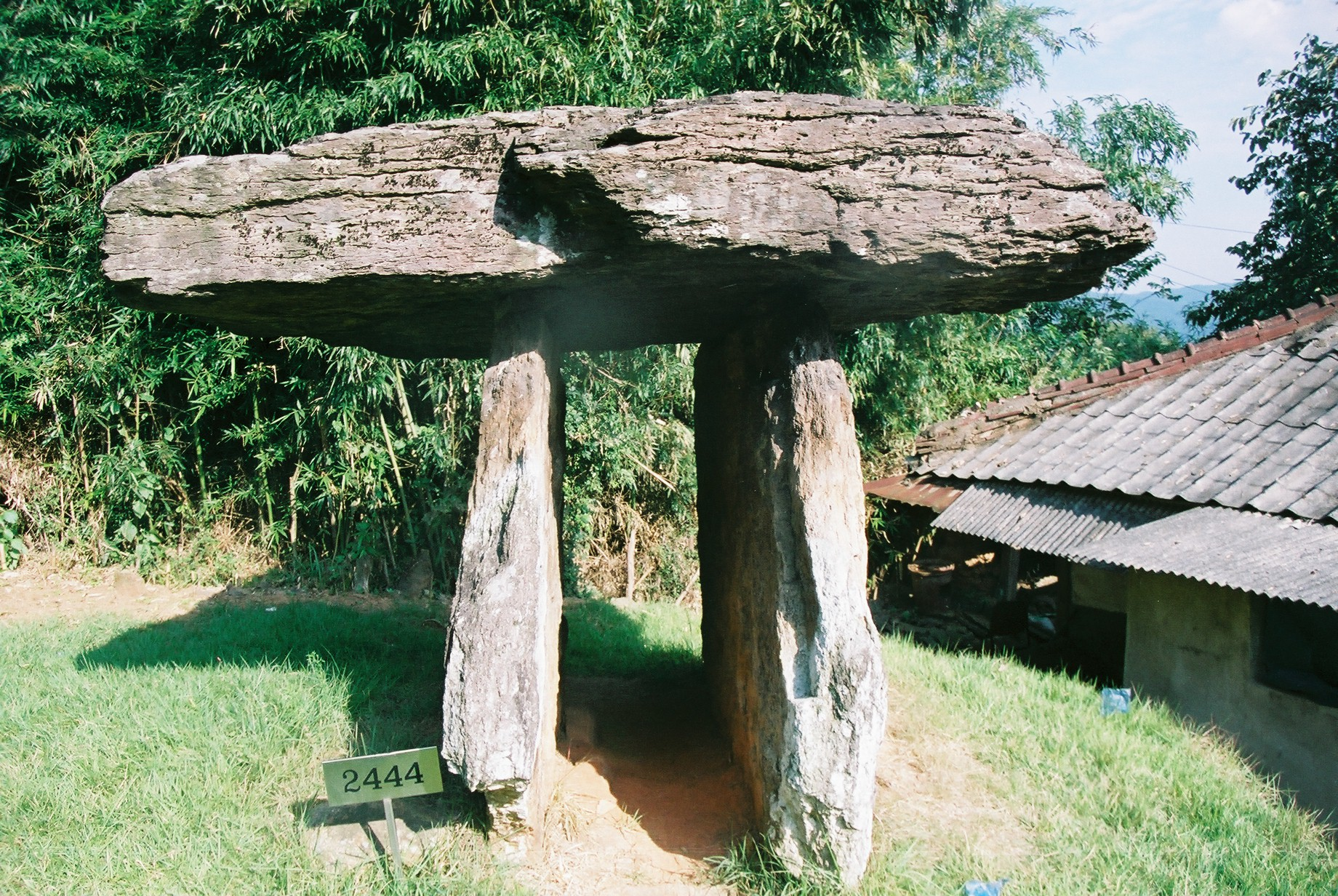 The dolmen of South Korea at the world heritage. This is northern style dolmen. In Chukrimri, Gochang, Jeolla-bukdo, South Korea.